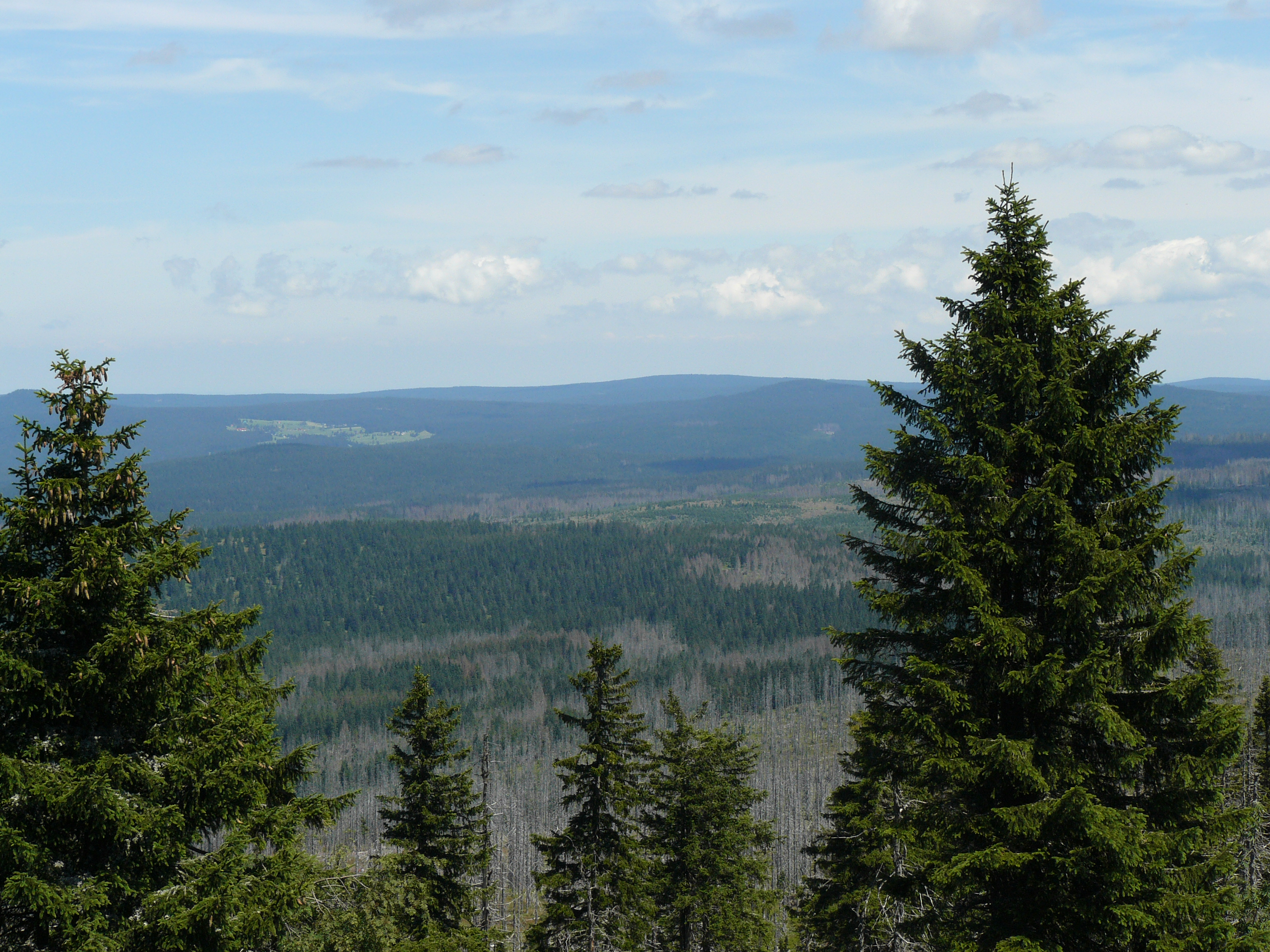 Picea abies, Bear mountain